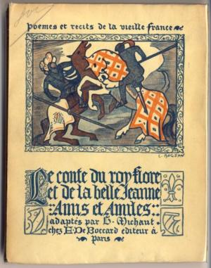 Le conte du Roi Flore et de la Belle Jeanne. Amis et Amiles.